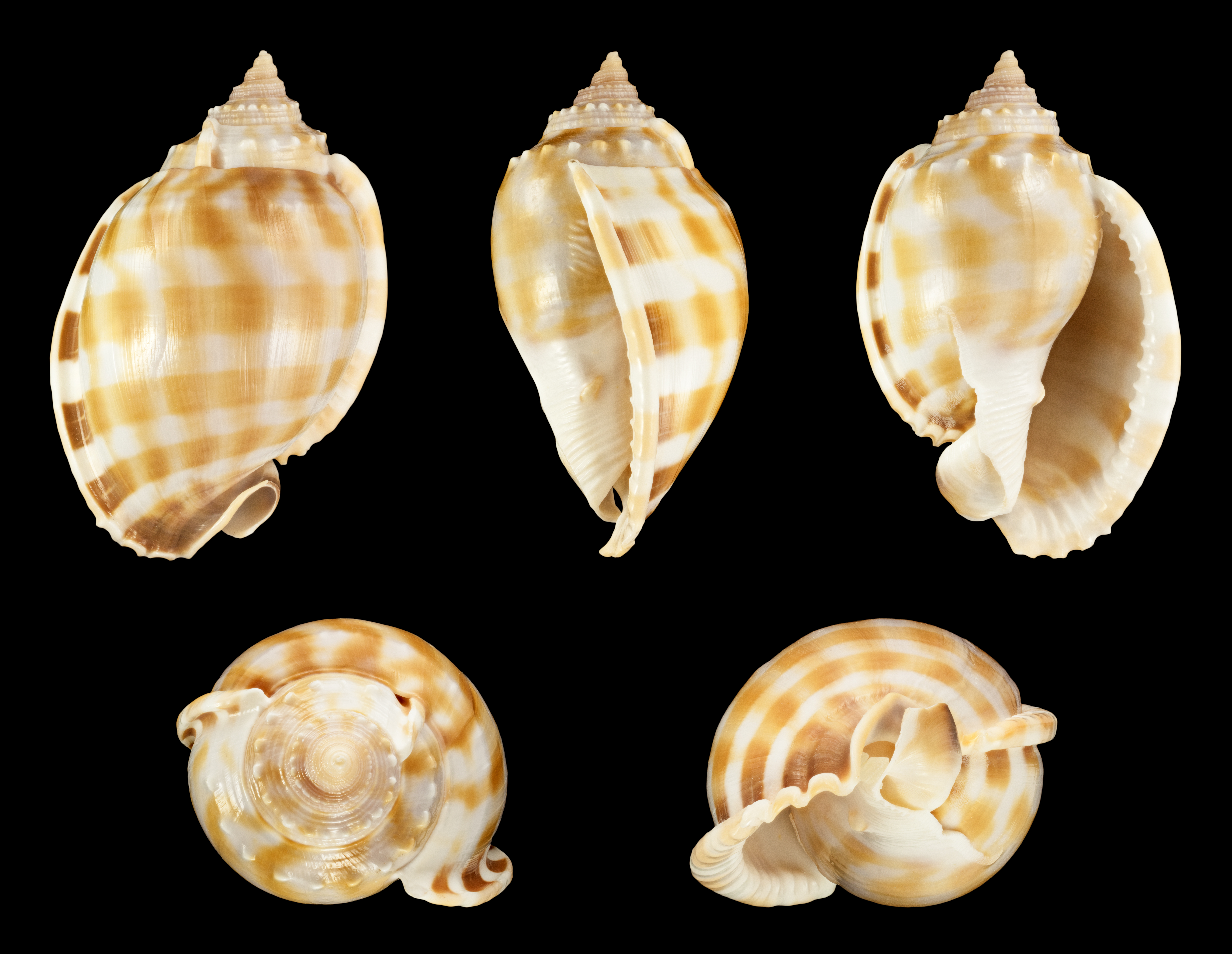 Phalium bandatum bandatum (Perry, 1811), Banded Bonnet; Length 10.2 cm; Originating from the Philippines. Shell of own collection, therefore not geocoded.